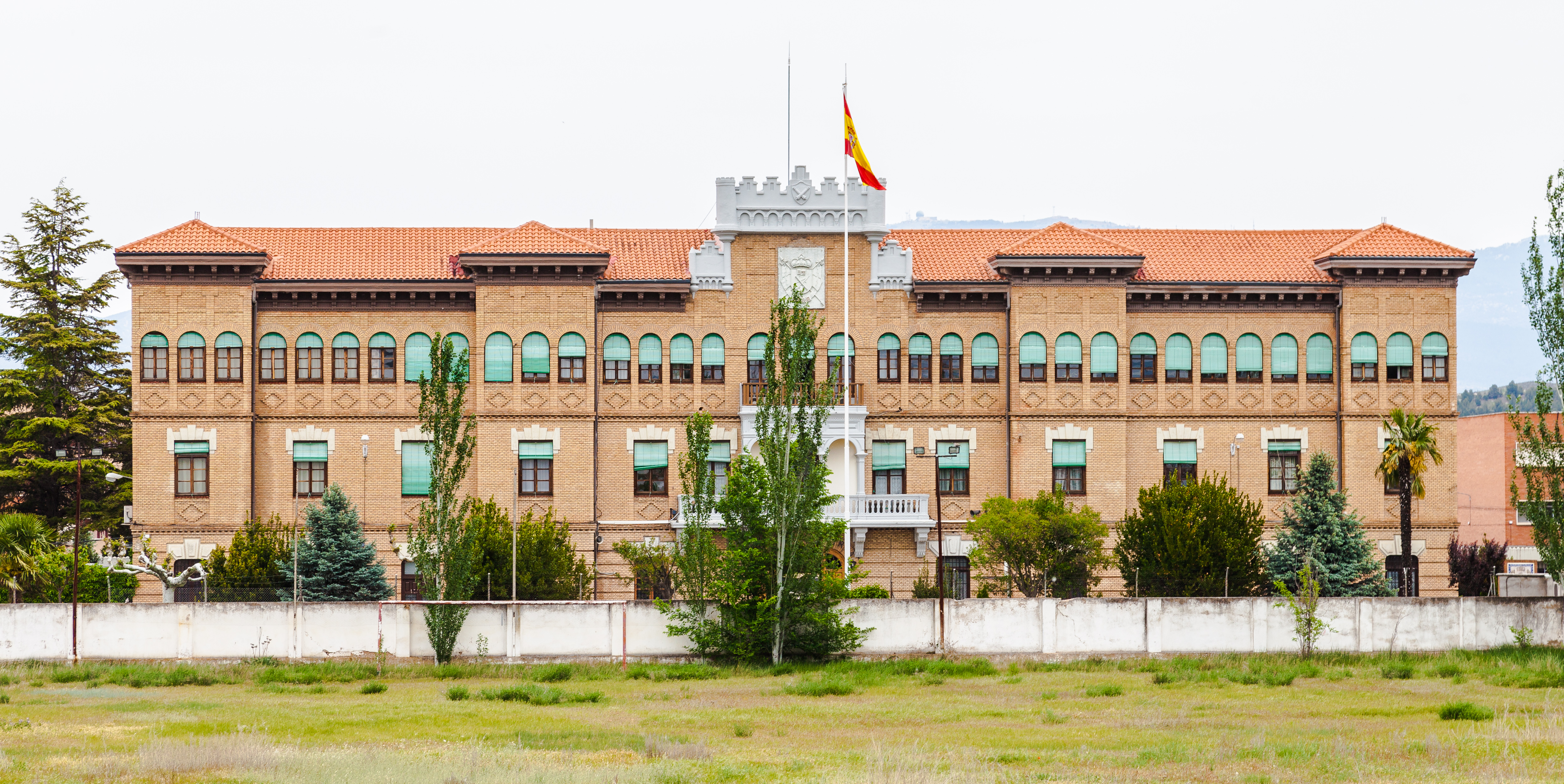 Barracks of the Spanish Army Barón de Warsage, Calatayud, Spain